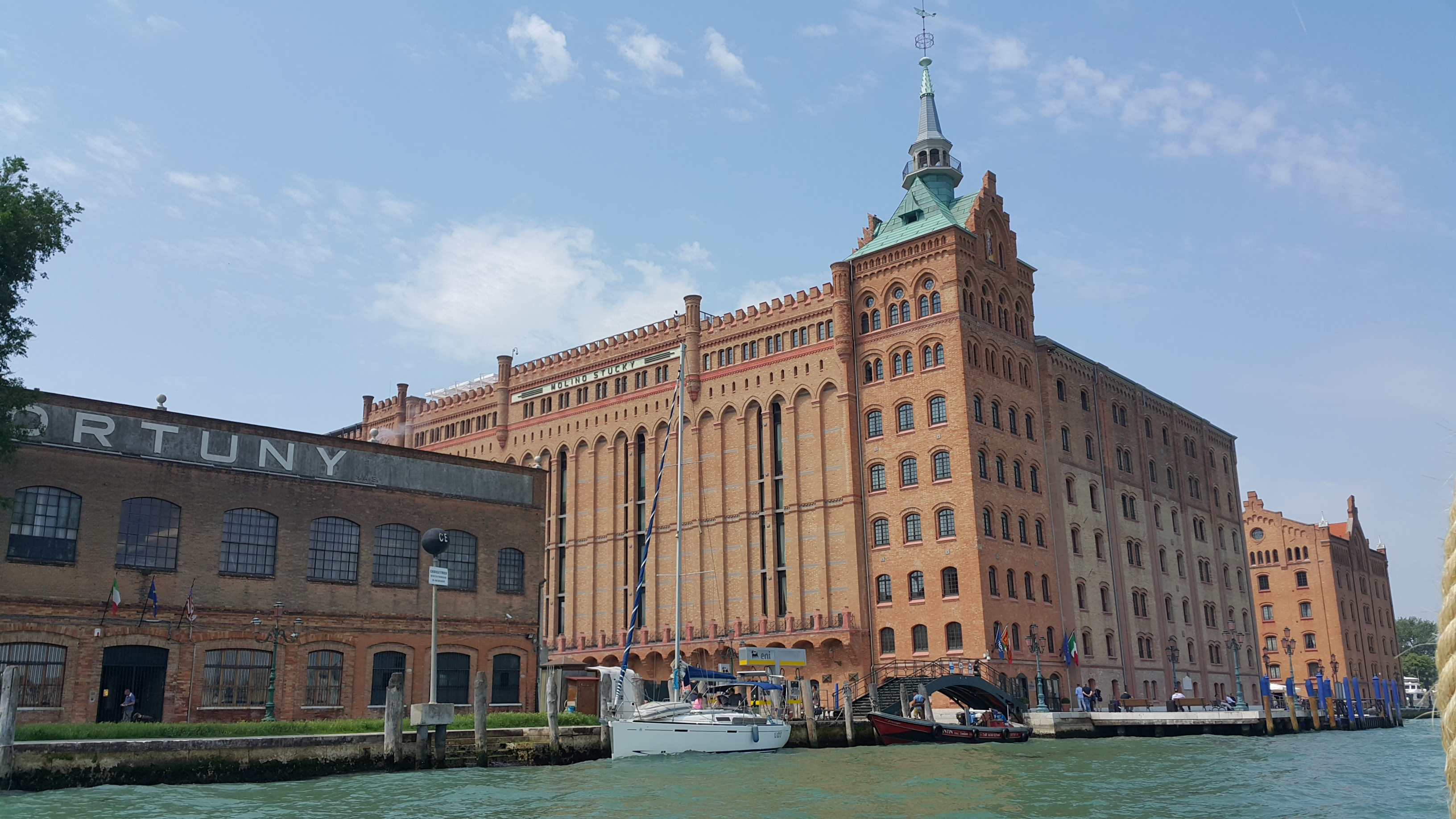 Molino Stucky in Venice, Giudecca